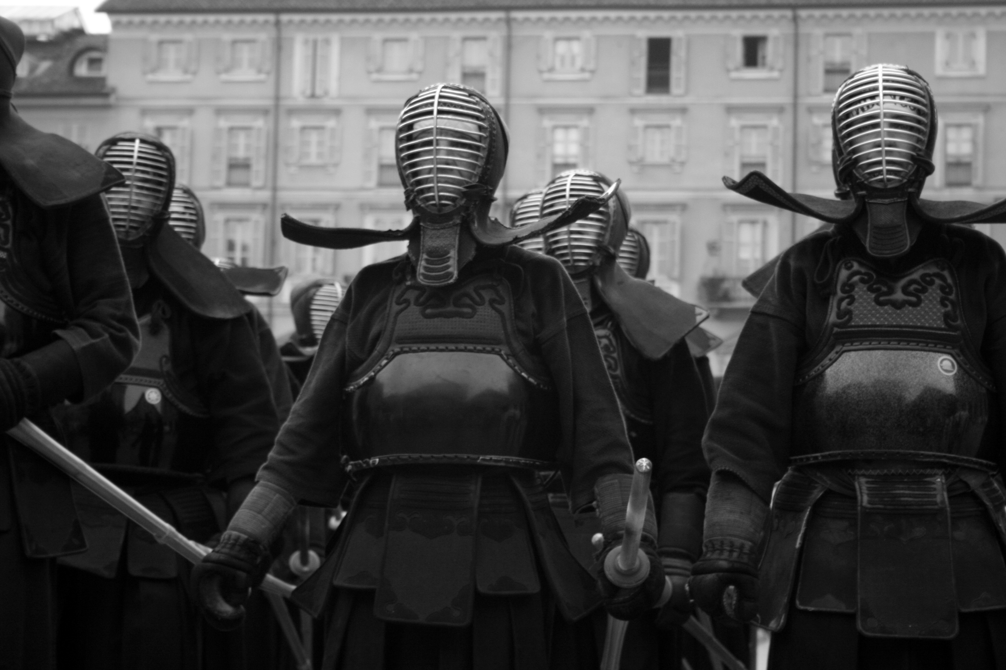 Kendoka at the 2006 World Fencing Championships in Torino, Italy